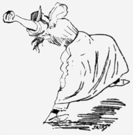 An illustration of baseball player George Harper wearing a dress for a night game from the July 7, 1894, edition of The Nashville American